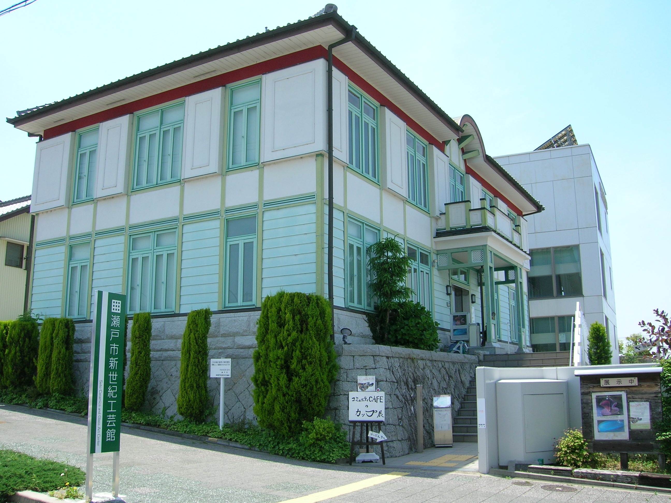 Seto Ceramics and Glass Art Center Loc: Seto city, Aichi Prefecture, Japan. 瀬戸市新世紀工芸館・展示棟（旧 瀬戸陶磁器陳列館） 撮影場所 愛知県瀬戸市